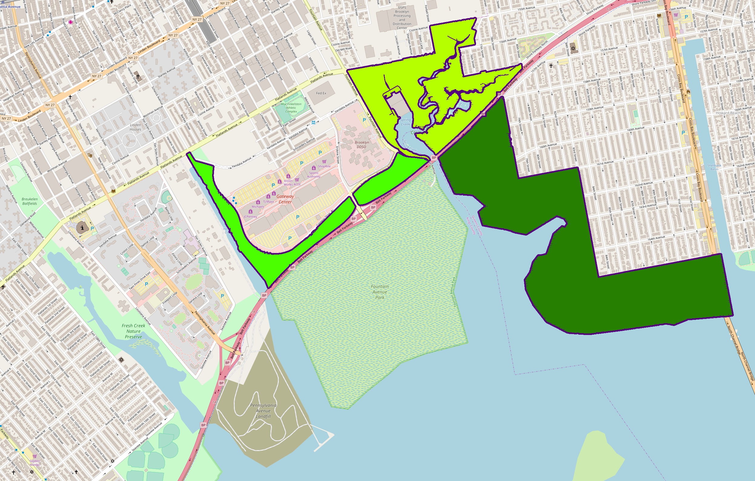 A map of Spring Creek, Brooklyn and Howard Beach, Queens. Highlighted in green are the sections of Spring Creek Park. The dark green section, also the southernmost and easternmost section, is located entirely in Howard Beach and known as Spring Creek South. It was created from a former landfill. Because it lies south of the Belt Parkway, it is part of the Gateway National Recreation Area of the National Parks Service. The yellow-green or central section is called Spring Creek North, and is managed by the New York City Department of Parks and Recreation. It is located at the former mouth of Spring Creek (the park namesake) on the Brooklyn-Queens border. A water treatment plant (gray) is located in this section. The bright green or western section is also managed by NYC Parks, and straddles the Gateway Center mall in Spring Creek. It was created by the mall developers in the 2000s, and is the only section of the park that is regularly accessible to the public. This map may be incomplete, and may contain errors. Don't rely solely on it for navigation.